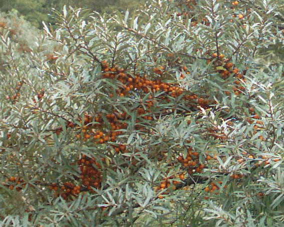 Sea-buckthorn foliage & berries